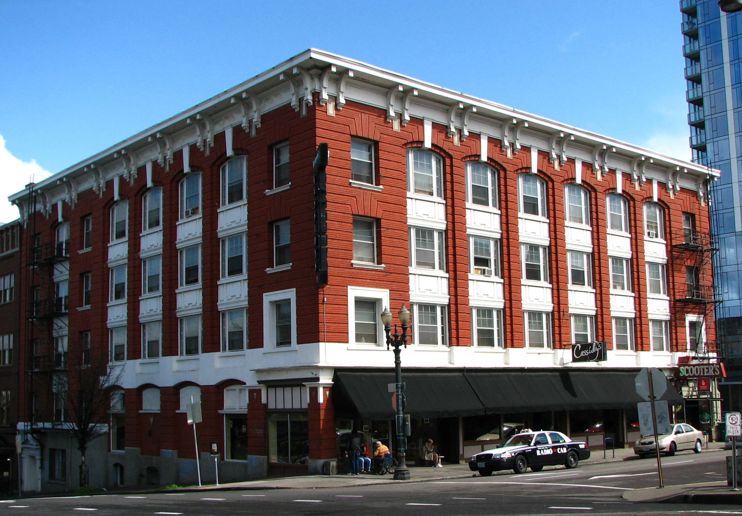 The historic Hotel Ramapo (built 1906), located at 1337 Southwest Washington Street in Portland, Oregon, United States, is listed on the US National Register of Historic Places. It has also been known as the Taft Hotel and erroneously as the Franklin Hotel.